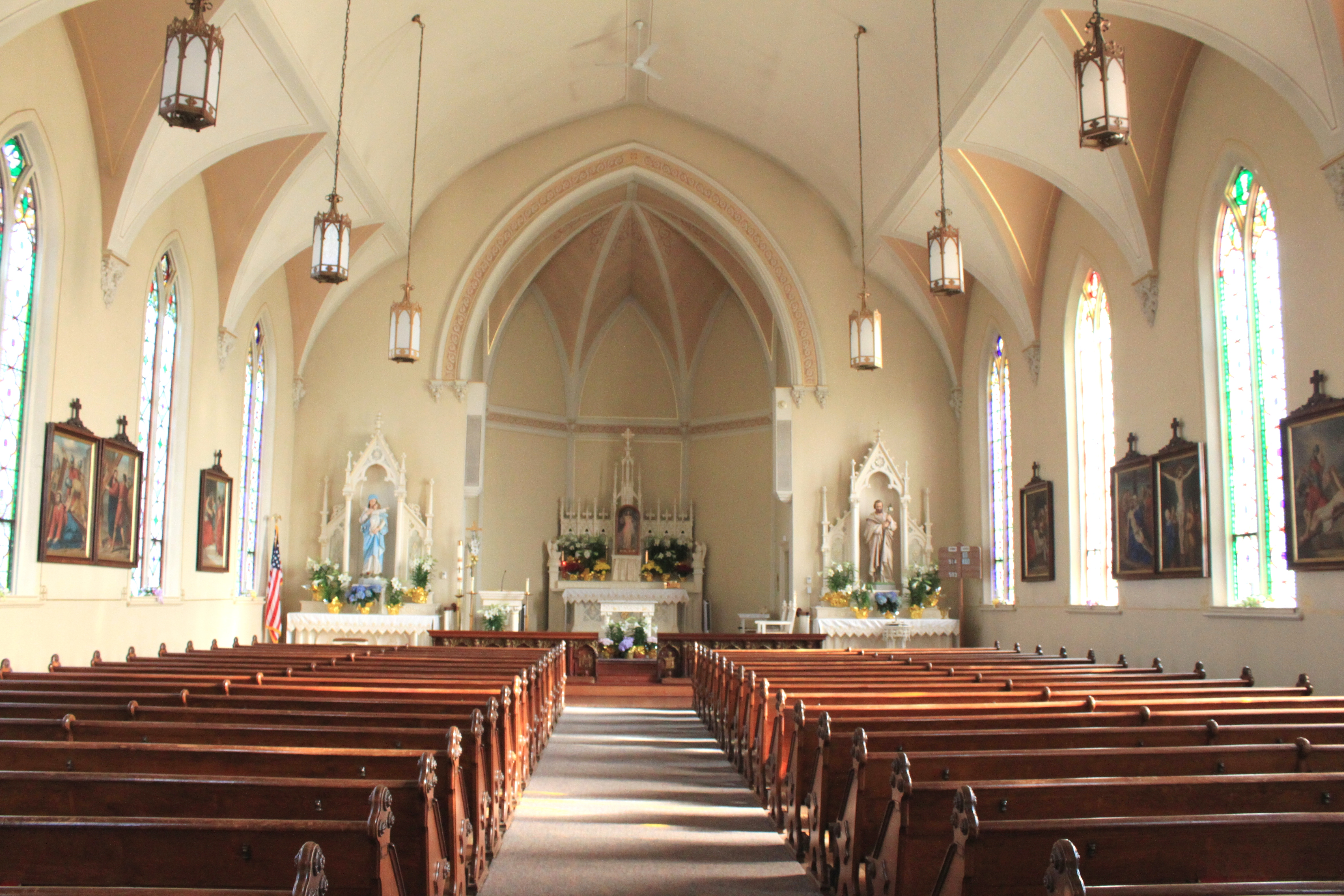 Old Saint Patrick Catholic Church sanctuary, 5671 Whitmore Lake Road, Northfield Township (Ann Arbor), Michigan. The church has been designated a Registered Michigan Historic Site and was built in 1878.